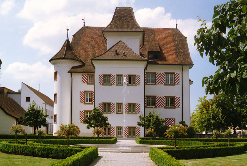 Schloss Aesch BL von Osten mit Park und Springbrunnen